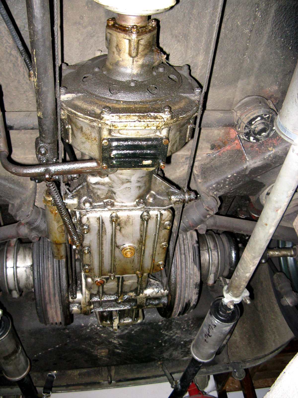 1951 Lancia Aurelia B10 (transaxle gearbox and rear axle brakes from underneath)